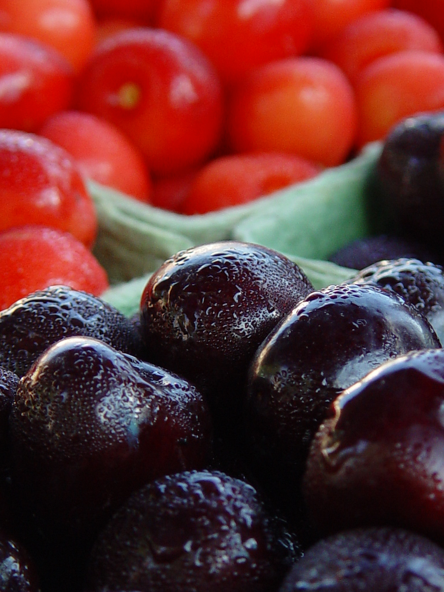 Taken at the Traverse City Farmers Market.